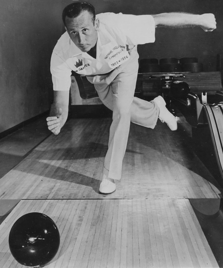 Don Carter circa 1955 Bowling Press Photo National Match Game Champ 1953 & 1954